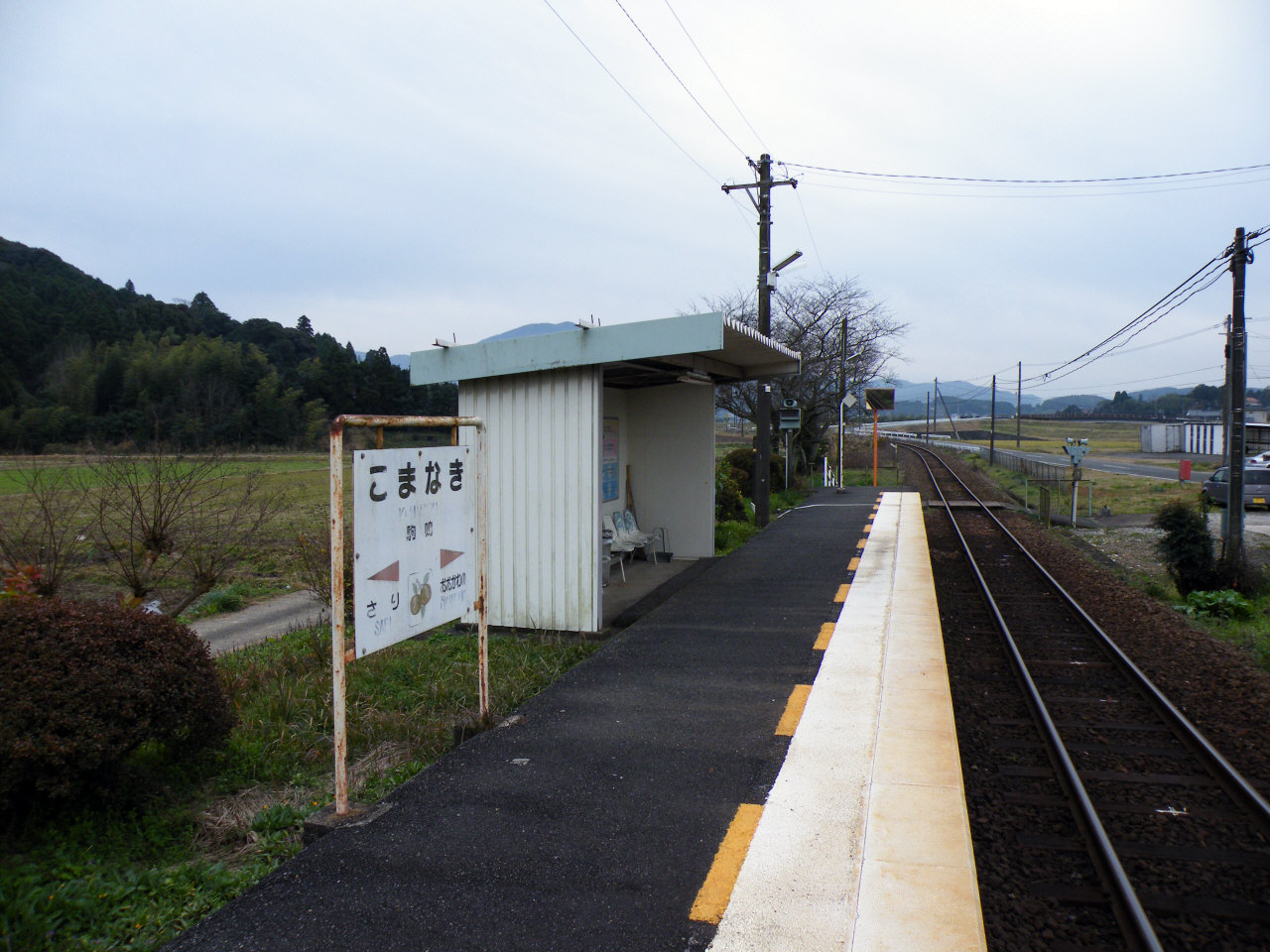 JRKyushu Chikuhi Line Komanaki Station